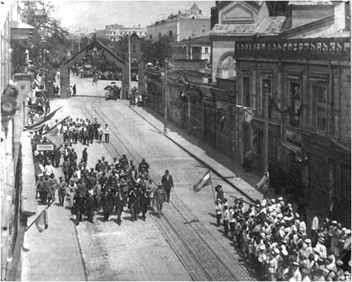 Leaders of the Second International visit Tbilisi, Georgia